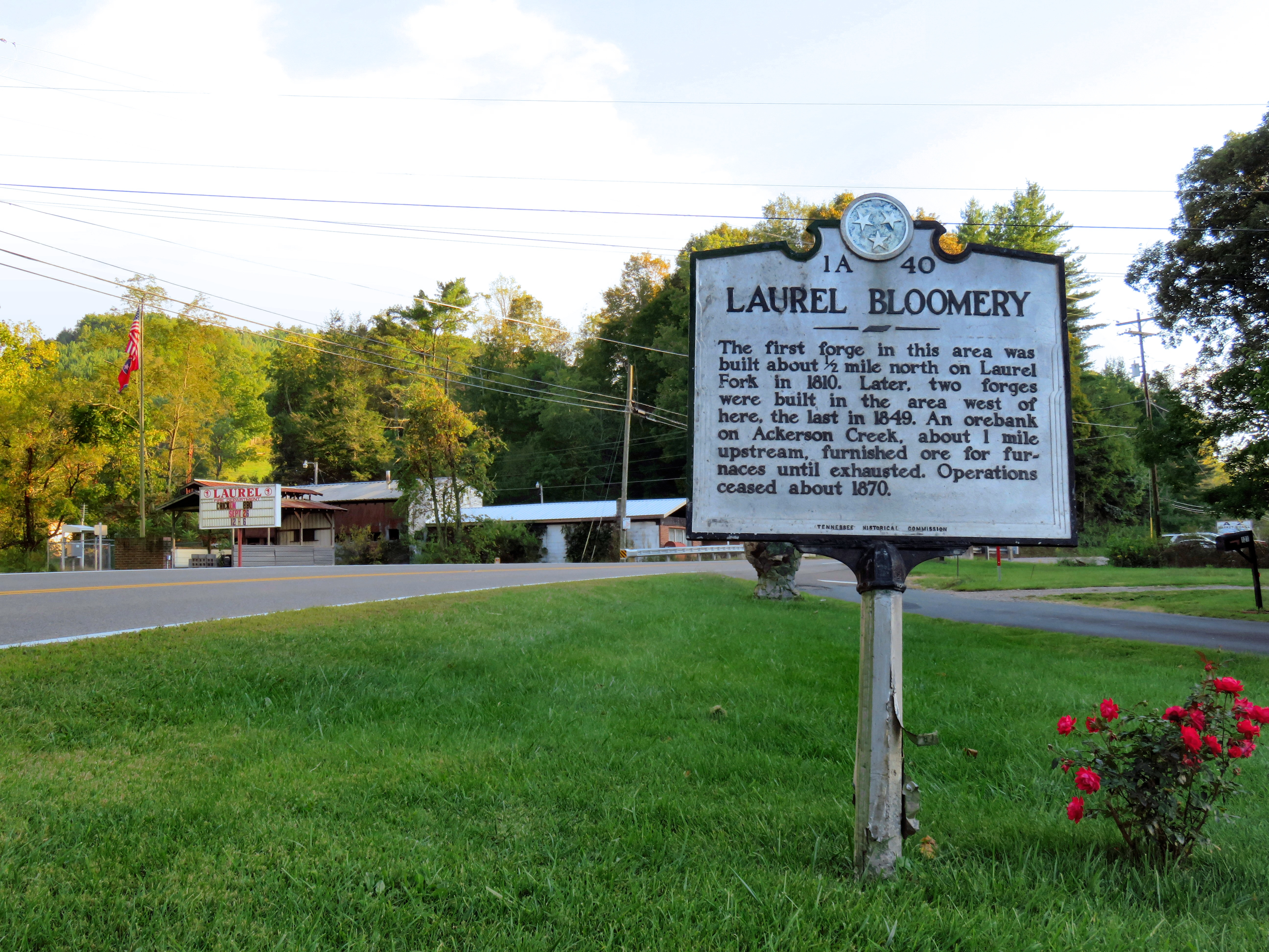 Tennessee Historical Commission marker in the Laurel Bloomery community of Johnson County, Tennessee, United States. Tennessee State Route 91 is on the left.